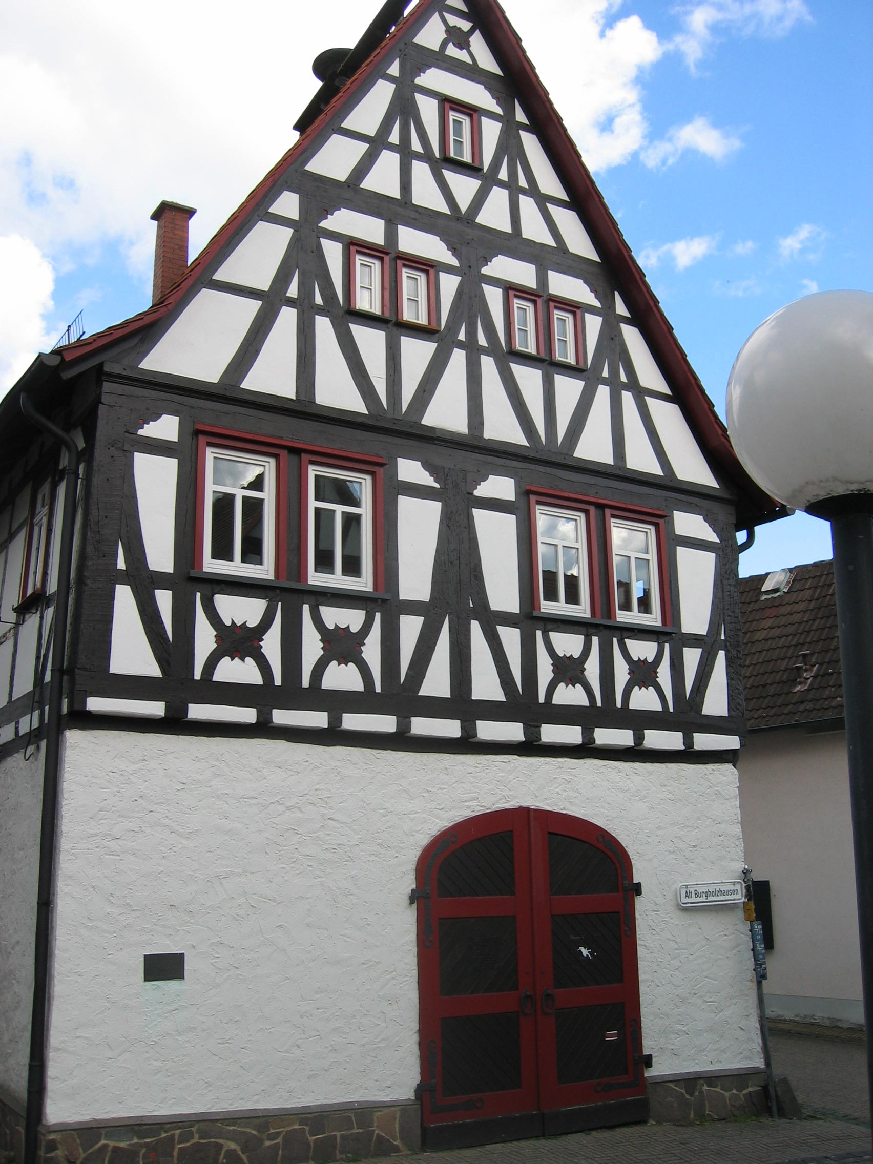 The old house of the mayor in Burgholzhausen (Friedrichsdorf)